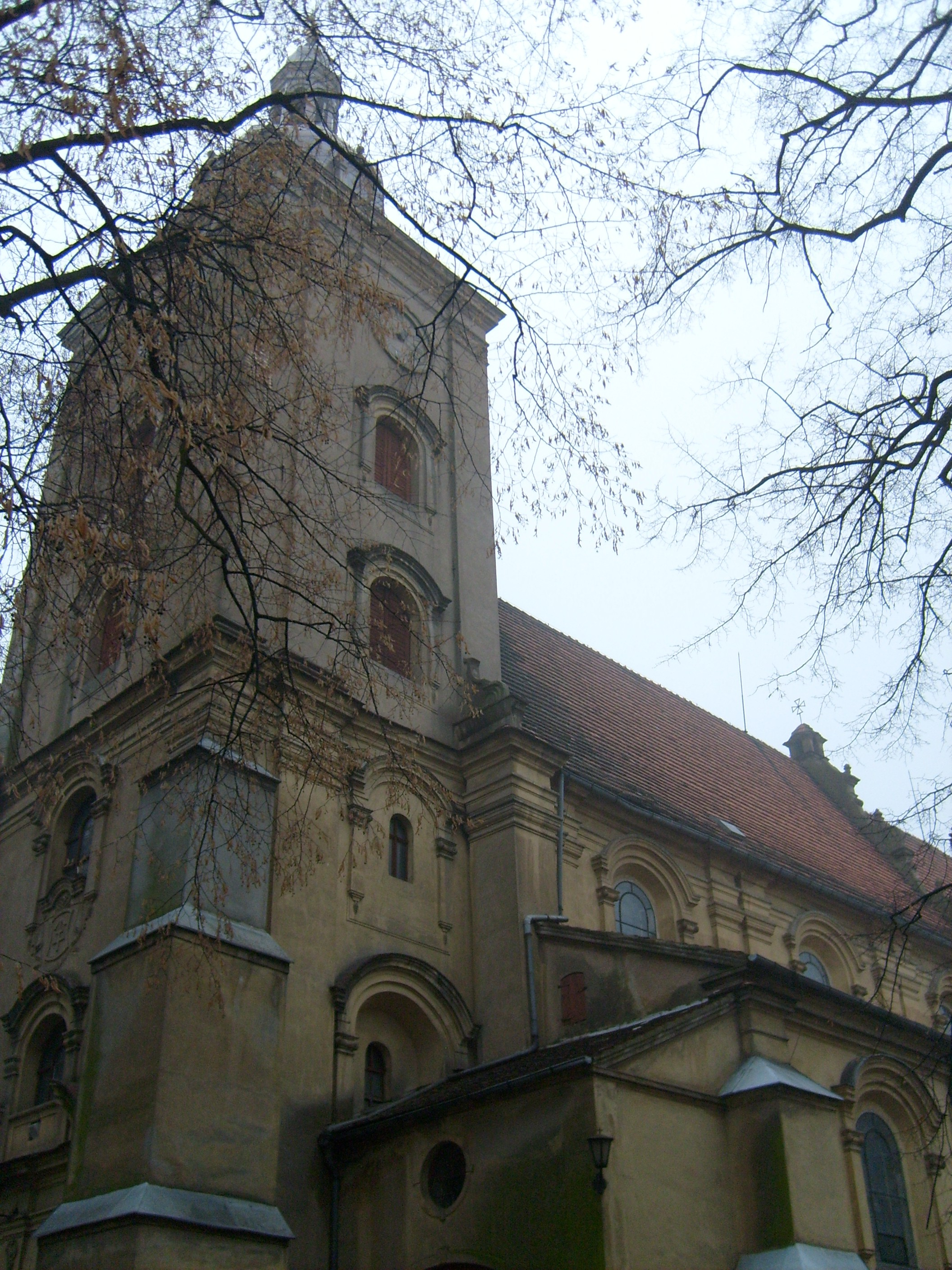 Church of St. Lawrence in Kozmin Wielkopolski